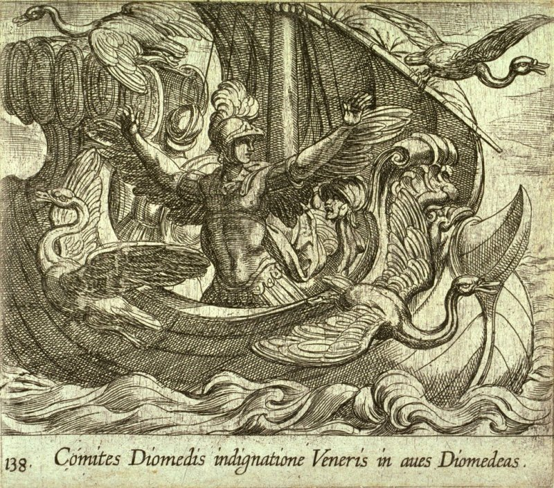 Acmon and his Friends Changed into Birds by Venus. Etching of Antonio Tempesta from the series Ovid’s Metamorphoses (book XIV), 17th century. 10.3 x 11.7 cm.